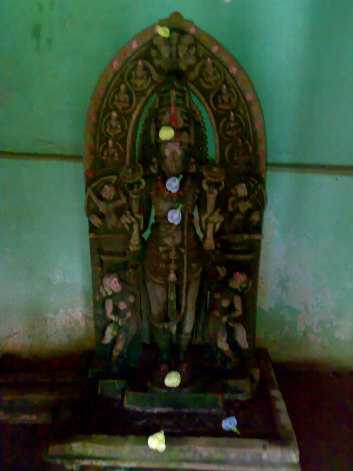 ವರದಾಂಬಿಕಾ ದೇವಿ